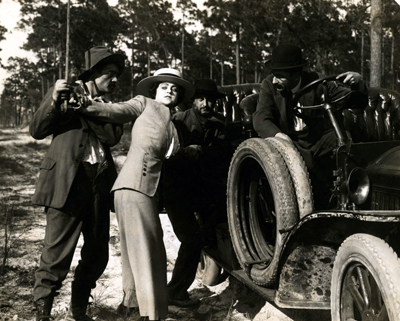 Still from the film The Idle Rich (1914) with Valentine Grant (right).